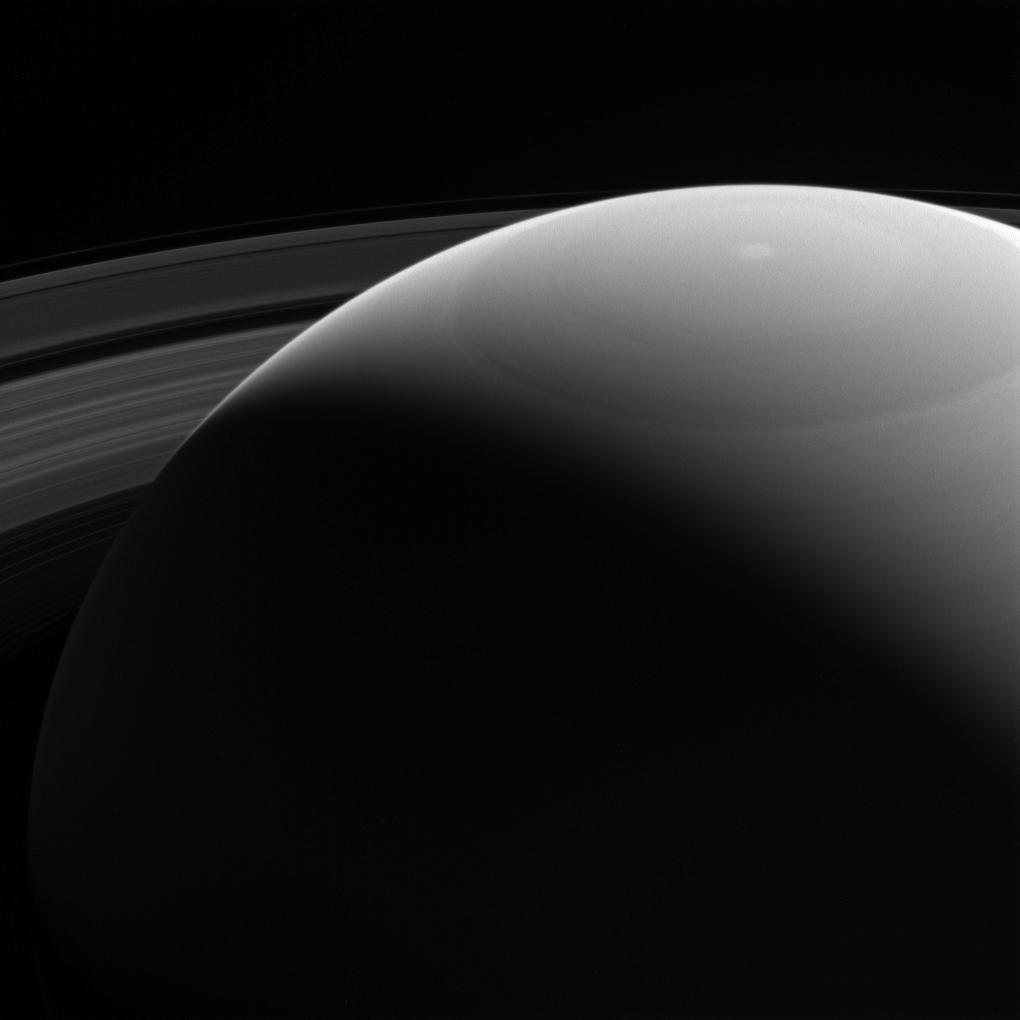 PIA20517: Peeking over Saturn's Shoulder No Earth-based telescope could ever capture a view quite like this. Earth-based views can only show Saturn's daylit side, from within about 25 degrees of Saturn's equatorial plane. A spacecraft in orbit, like Cassini, can capture stunning scenes that would be impossible from our home planet. This view looks toward the sunlit side of the rings from about 25 degrees (if Saturn is dominant in image) above the ring plane. The image was taken in violet light with the Cassini spacecraft wide-angle camera on Oct. 28, 2016. The view was obtained at a distance of approximately 810,000 miles (1.3 million kilometers) from Saturn. Image scale is 50 miles (80 kilometers) per pixel. The Cassini mission is a cooperative project of NASA, ESA (the European Space Agency) and the Italian Space Agency. The Jet Propulsion Laboratory, a division of the California Institute of Technology in Pasadena, manages the mission for NASA's Science Mission Directorate, Washington. The Cassini orbiter and its two onboard cameras were designed, developed and assembled at JPL. The imaging operations center is based at the Space Science Institute in Boulder, Colorado. For more information about the Cassini-Huygens mission visit and The Cassini imaging team homepage is at